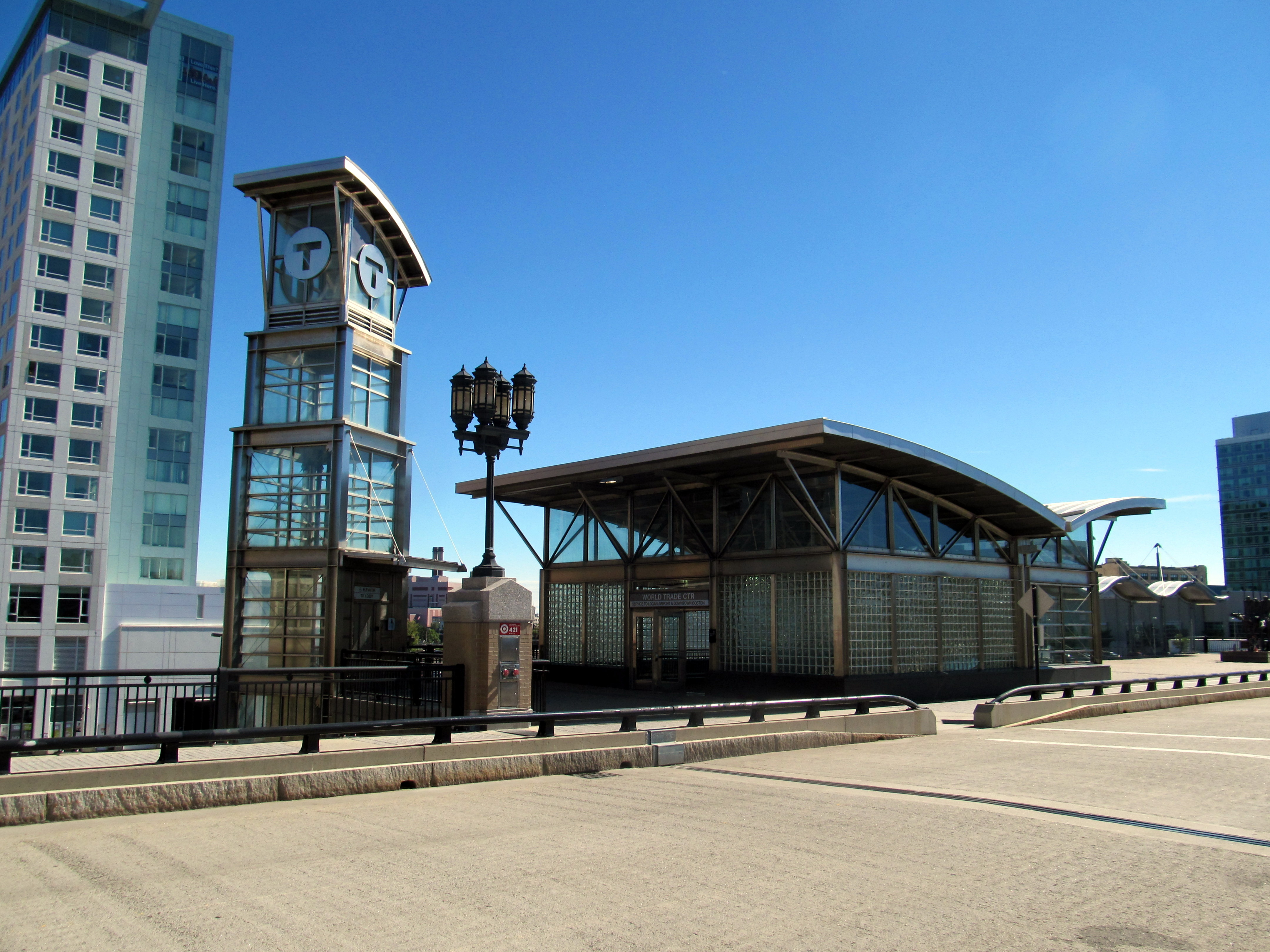 The second level of the World Trade Center headhouse on the World Trade Center Avenue viaduct